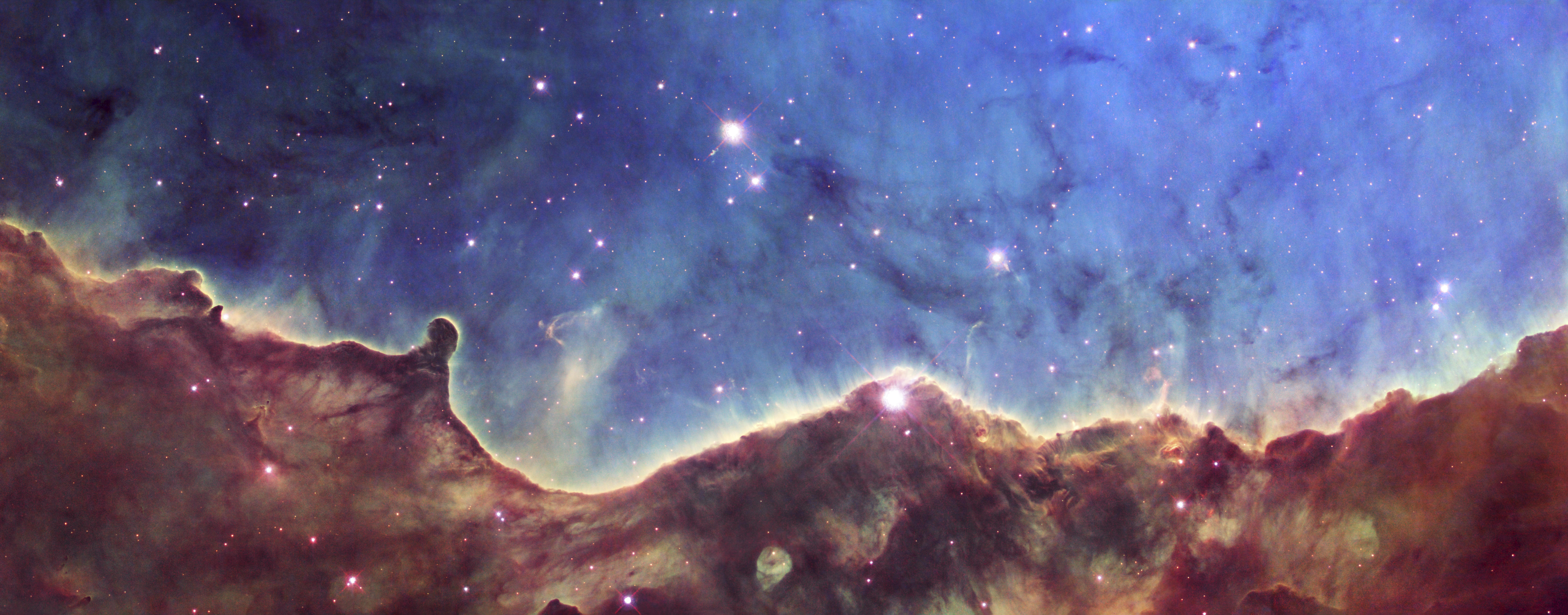 This month's three-dimensional-looking Hubble image shows the edge of the giant gaseous cavity within the star-forming region called NGC 3324. The glowing nebula has been carved out by intense ultraviolet radiation and stellar winds from several hot, young stars. A cluster of extremely massive stars, located well outside this image in the center of the nebula, is responsible for the ionization of the nebula and excavation of the cavity. The image also reveals dramatic dark towers of cool gas and dust that rise above the glowing wall of gas. The dense gas at the top resists the blistering ultraviolet radiation from the central stars, and creates a tower that points in the direction of the energy flow. The high-energy radiation blazing out from the hot, young stars in NGC 3324 is sculpting the wall of the nebula by slowly eroding it away. Located in the Southern Hemisphere, NGC 3324 is at the northwest corner of the Carina Nebula (NGC 3372), home of the Keyhole Nebula and the active, outbursting star Eta Carinae. The entire Carina Nebula complex is located at a distance of roughly 7,200 light-years, and lies in the constellation Carina. This image is a composite of data taken with two of Hubble's science instruments. Data taken with the Advanced Camera for Surveys (ACS) in 2006 isolated light emitted by hydrogen. More recent data, taken in 2008 with the Wide Field Planetary Camera 2 (WFPC2), isolated light emitted by sulfur and oxygen gas. To create a color composite, the data from the sulfur filter are represented by red, from the oxygen filter by blue, and from the hydrogen filter by green.